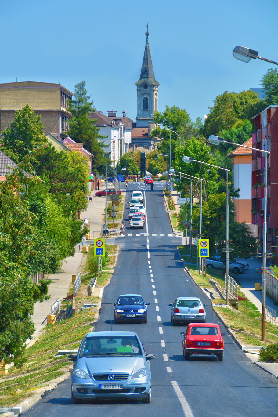 One of three main streets in Inđija. Cara Dušana street in Inđija